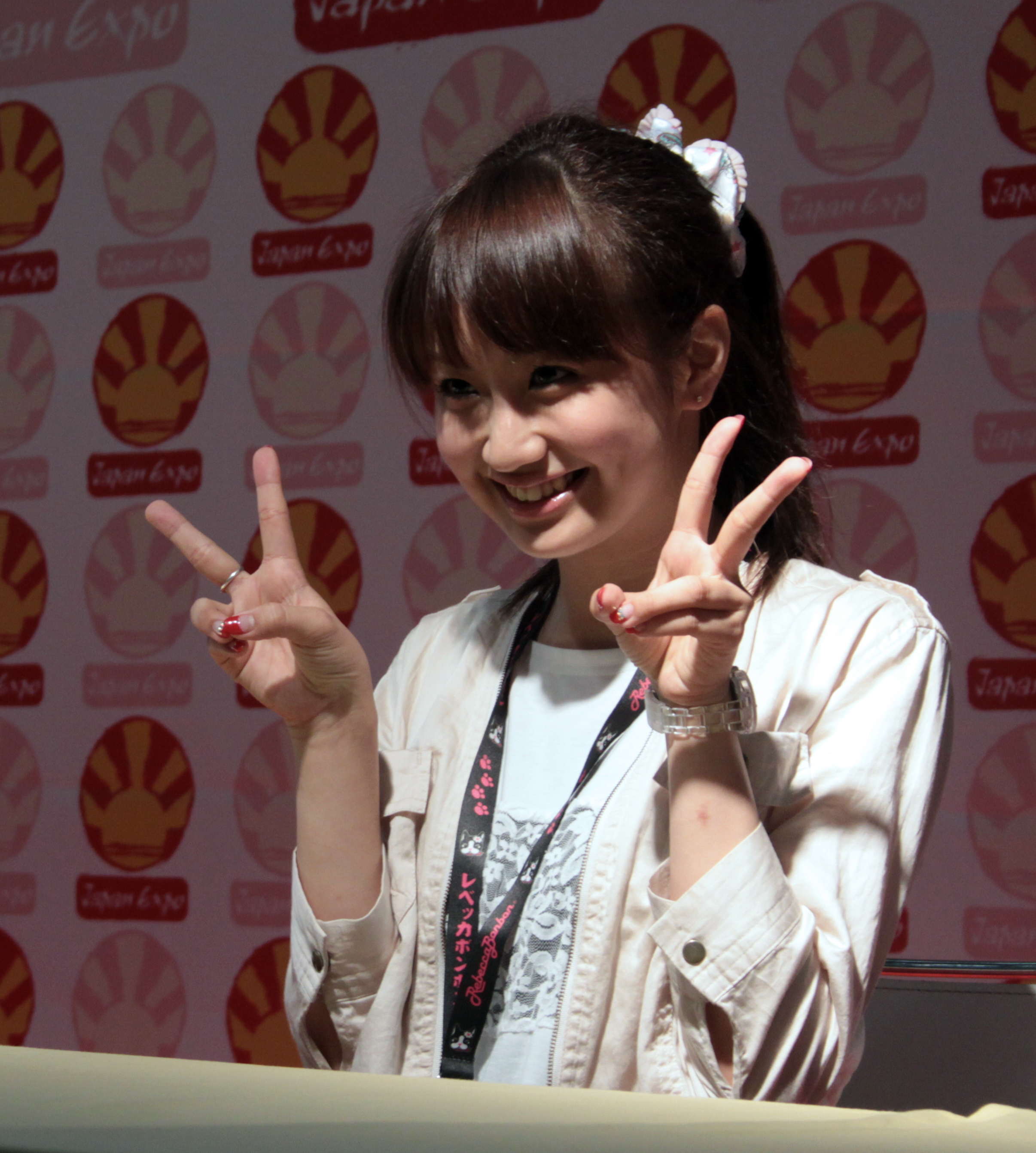 The idol Natsuko Aso at Japan Expo 2010